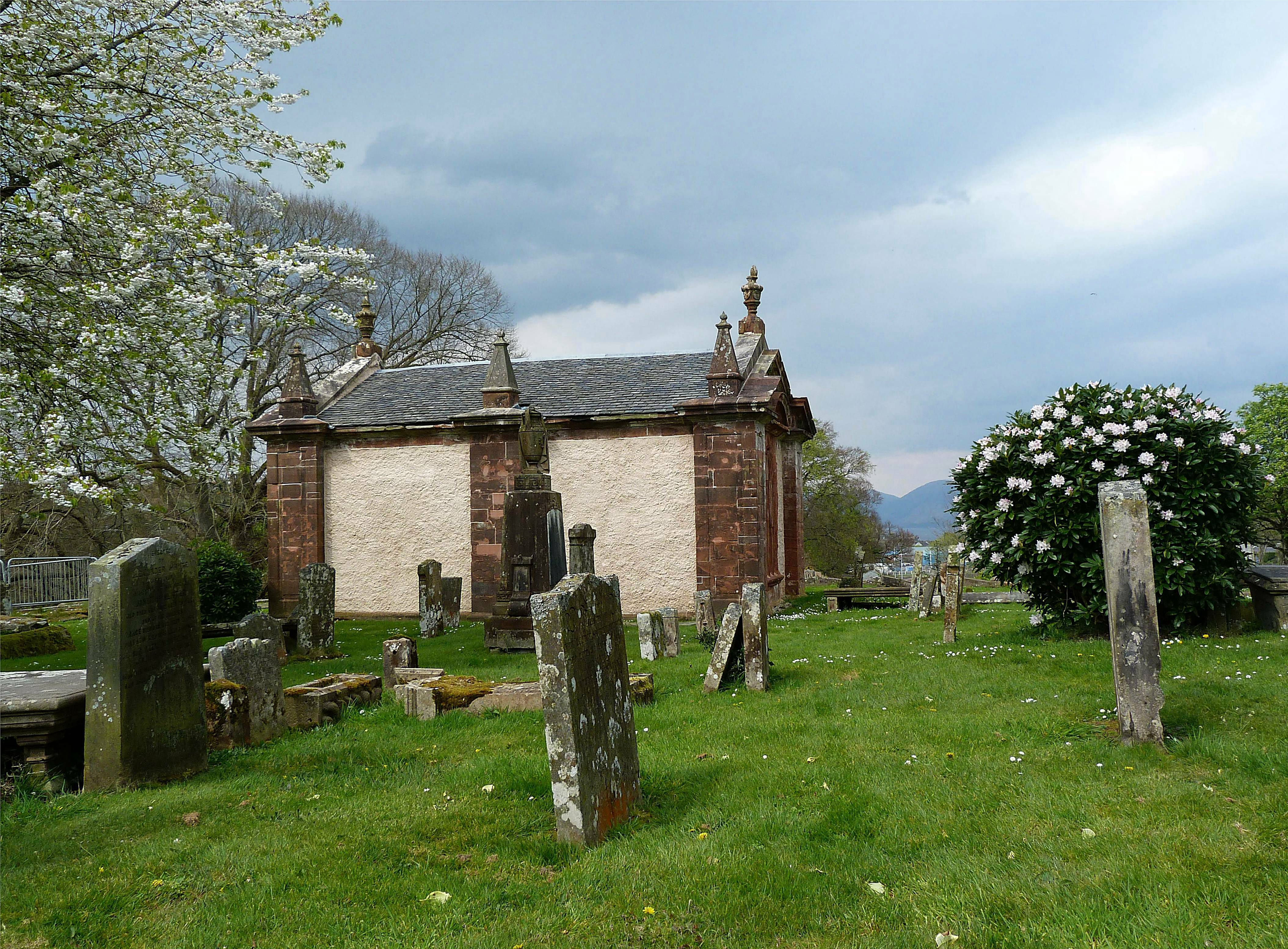 High Kirk Mausoleum, Rothesay